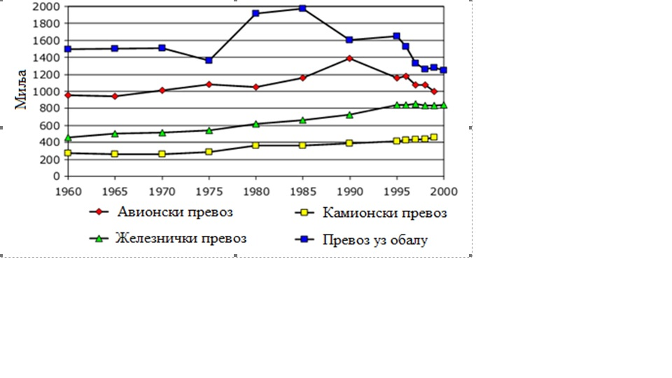 Просечне дужине превоза терета употребом различитих превозних средстава у САД по годинама